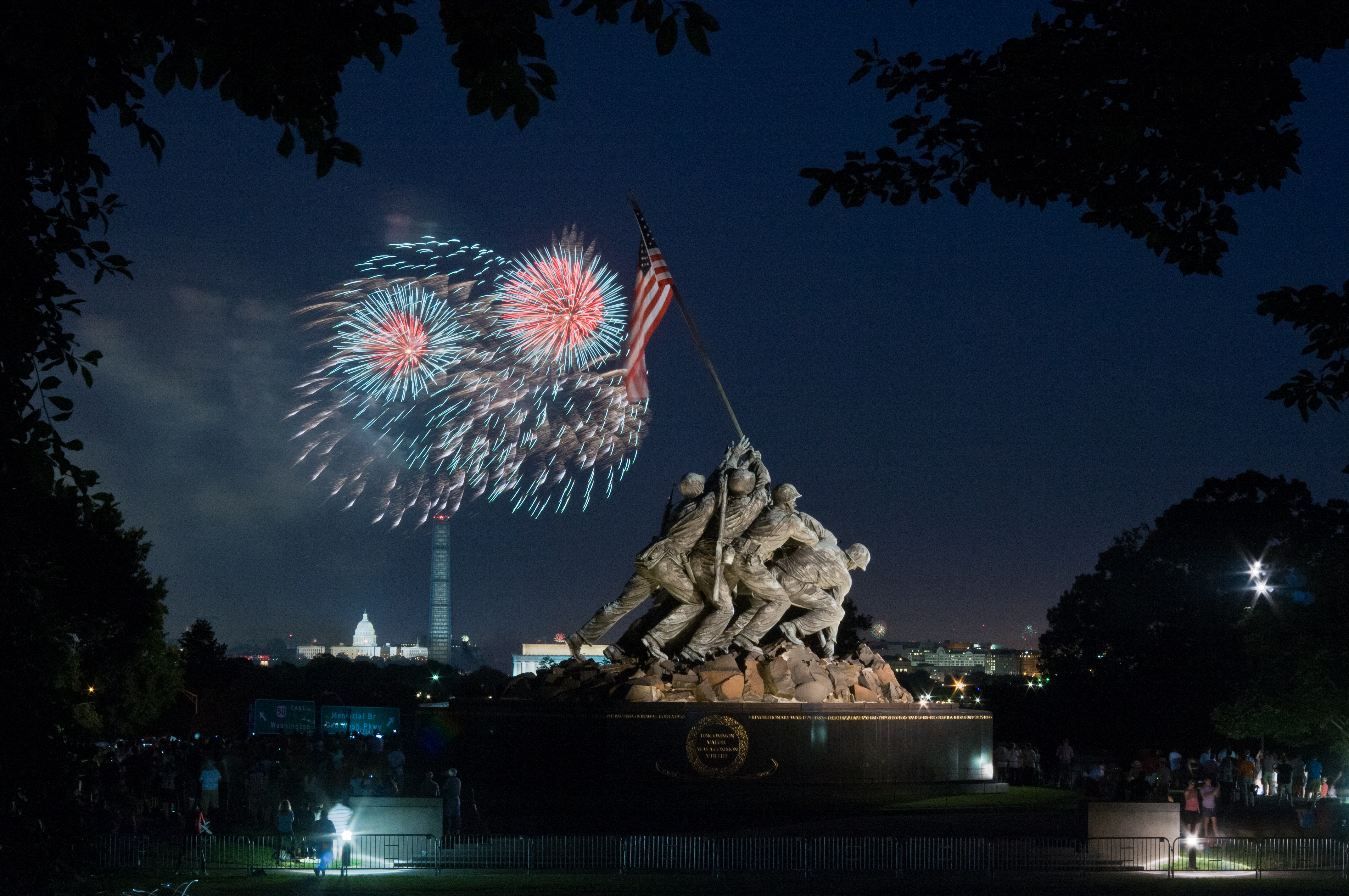 Fireworks are seen from the U.S. Marine Corps Memorial area, in Arlington, VA on Jul. 4, 2013. To the left, in the distance, is a corner of the Lincoln Memorial, then the U.S.. Department of Agriculture (USDA) Yates Building (dark red brick building), the Washington Monument (with work scaffolding), and the U.S. Capitol building seen in the distance, in Washington, D.C. The U.S. Marine Corps War Memorial represents this nation's gratitude to Marines and those who have fought beside them. While the statue depicts one of the most famous incidents of World War II, it is often referred to as the Iwo Jima Memorial; the memorial is dedicated to all Marines who have given their lives in the defense of the U.S. since 1775. USDA photo by Lance Cheung.